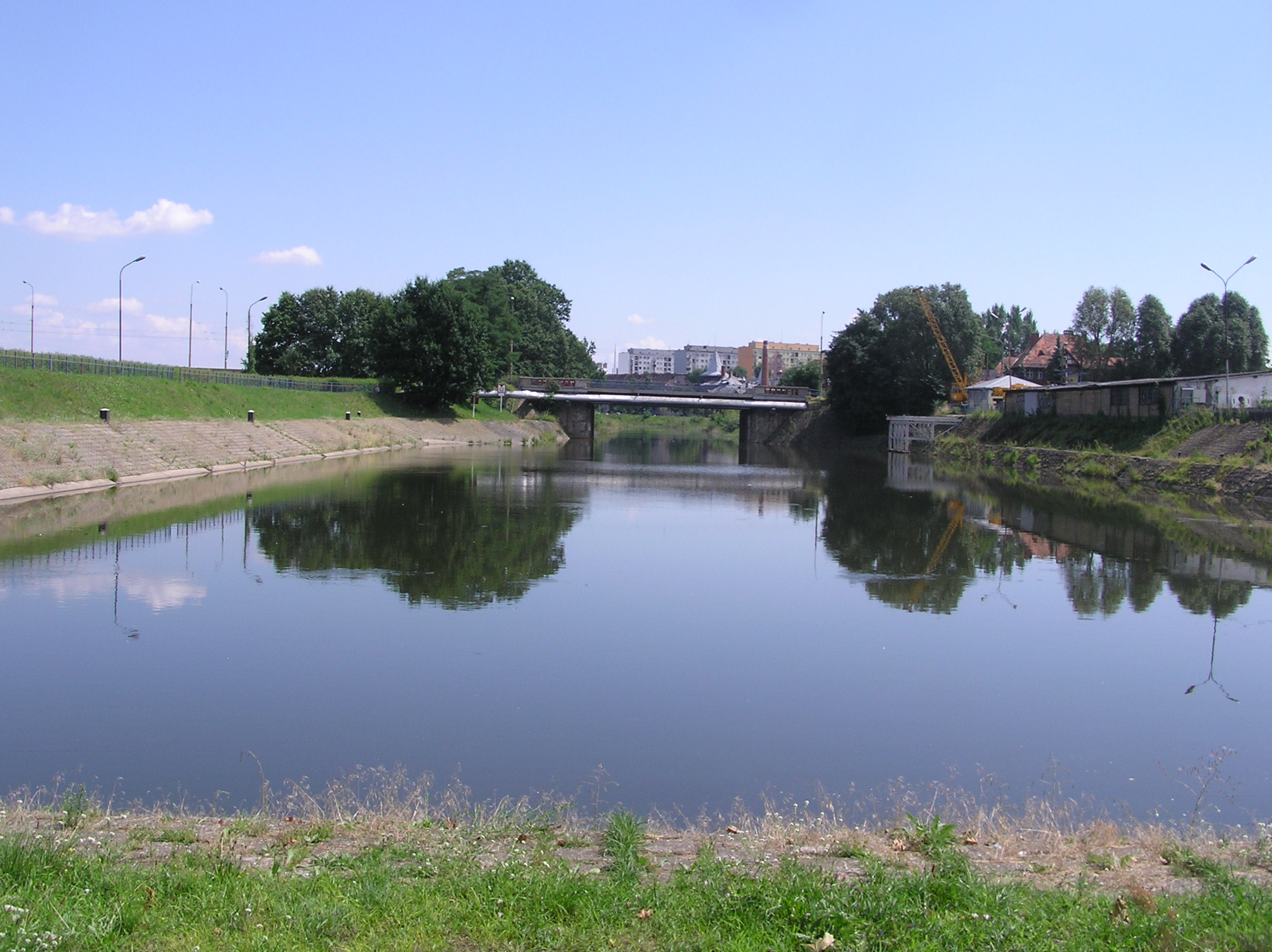 Wrocław, Oder River, trail side Oder waterway (european waterway E-30), Miejski Canal, Miejska Lock